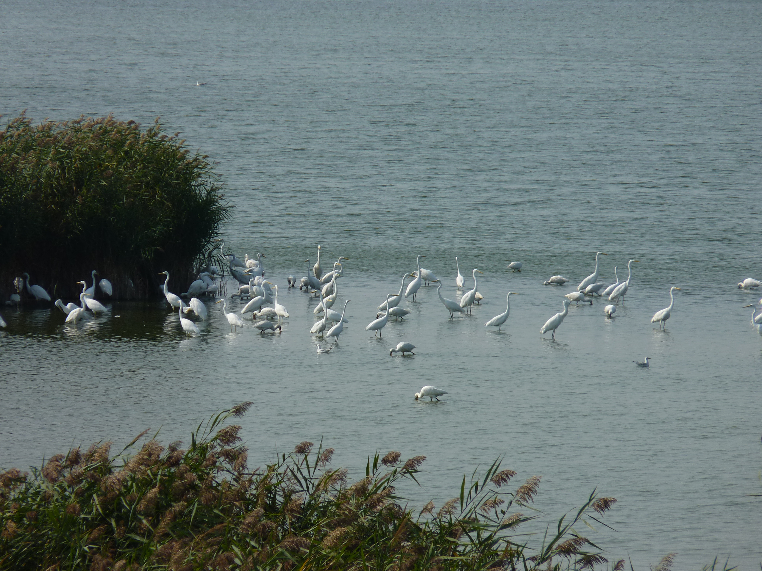 Dinnyési Fertő protected wetland. Mixed flock of Ardea alba (mostly standing) and Platalea leucorodia (mostly feeding with bills underwater); also a few Chroicocephalus ridibundus.